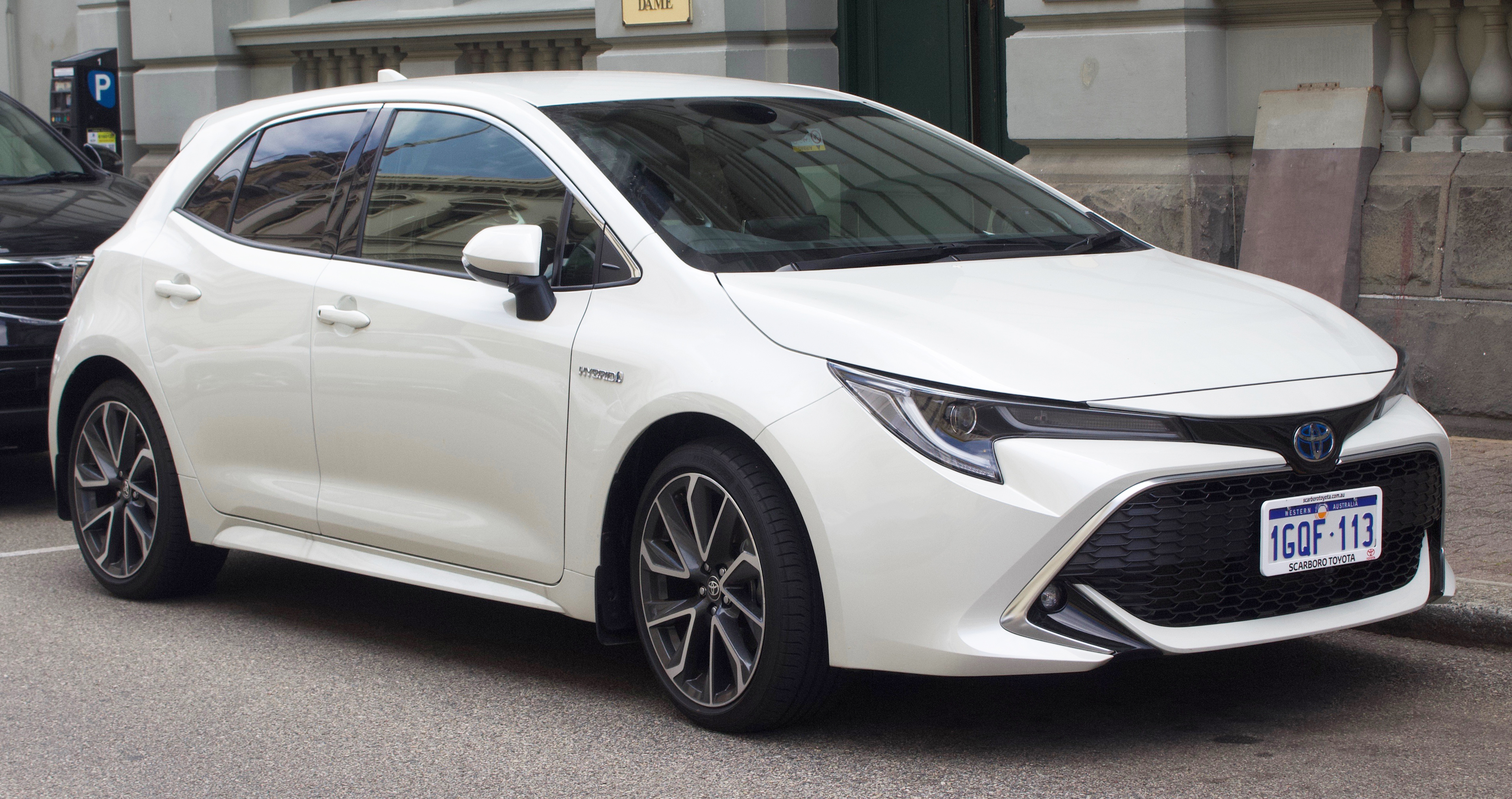 2018 Toyota Corolla (ZWE211R) ZR hybrid hatchback. Photographed in Fremantle, Western Australia, Australia.